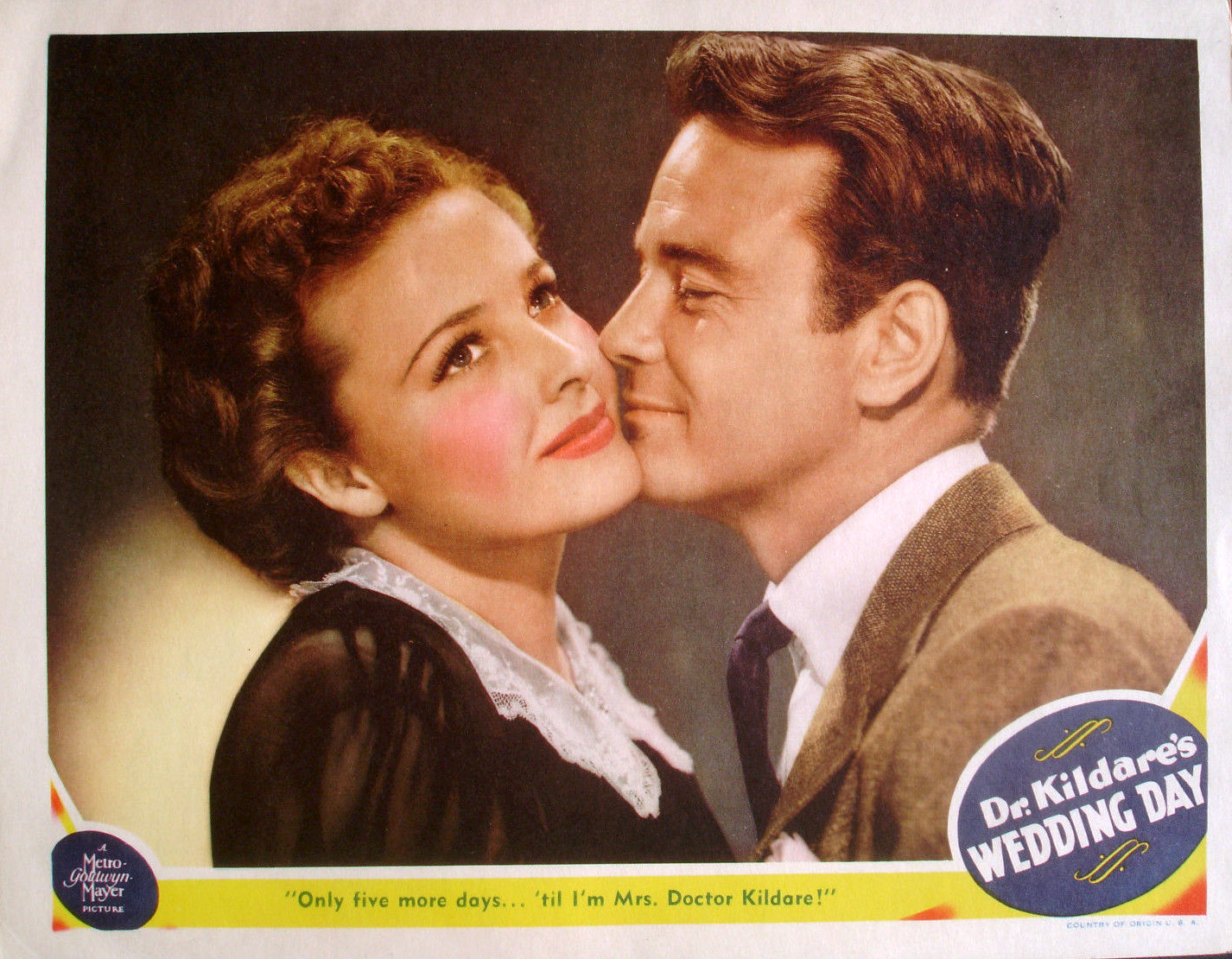 Lobby card for the American drama film Dr. Kildare's Wedding Day (1941). The item has no copyright markings on it as can be seen in the links above. at bottom right is Country of origin USA.